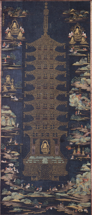 A picture of Buddhist Paradise with Golden Pagoda (紺紙著色金光明最勝王経金字宝塔曼荼羅図, konshichakushoku konkōmyō saishō ōkyō kinji hōtō mandarazu), one of ten hanging hanging scrolls (mandalas), 139.7 cm x 54.8 cm. Gold paint on indigo blue paper. Located at Chūson-ji, Hiraizumi, Iwate, Japan.